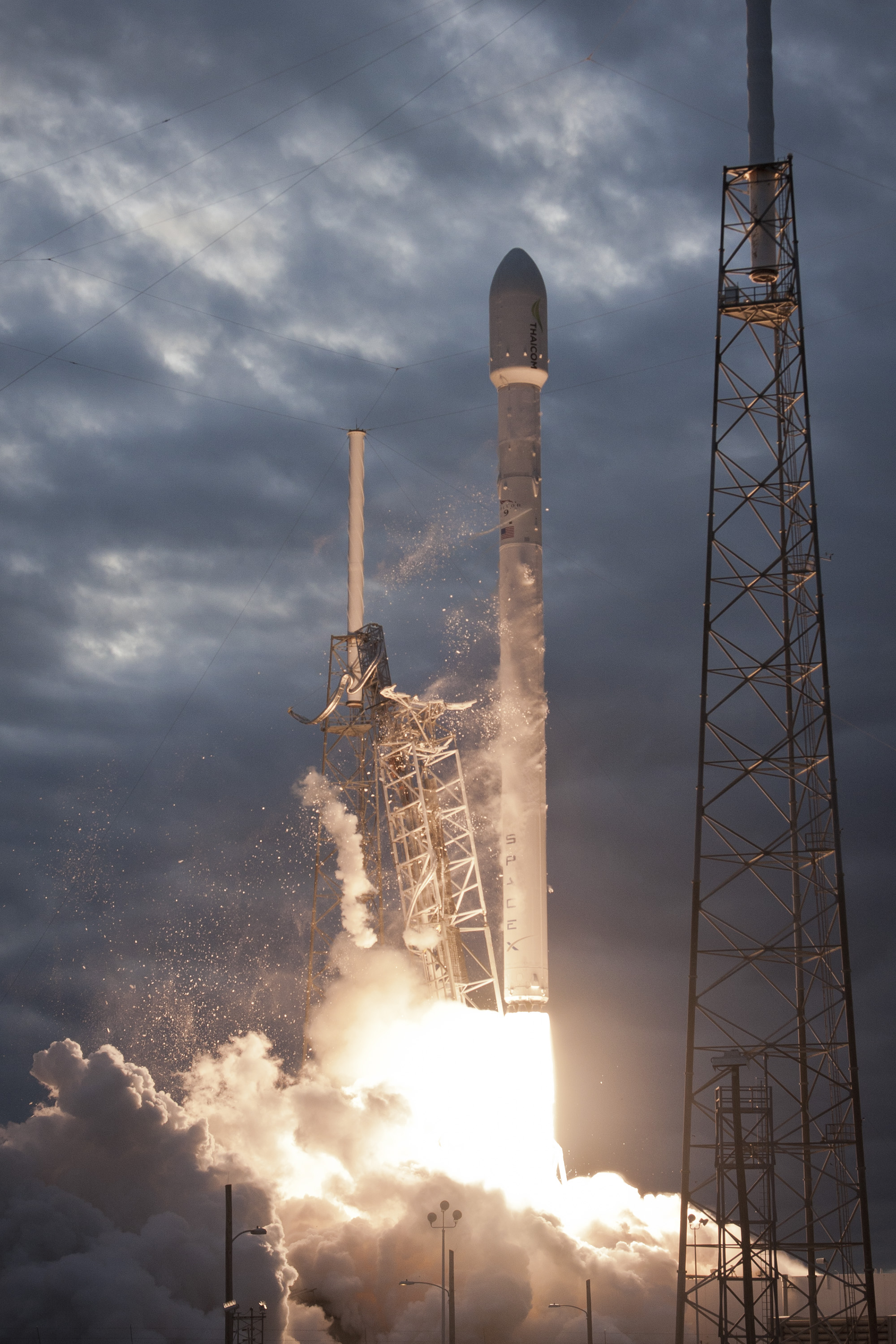 On January 6, 2014, SpaceX successfully launched the THAICOM 6 satellite for leading Asian satellite operator THAICOM, marking the second successful GTO flight for the upgraded Falcon 9 launch vehicle.